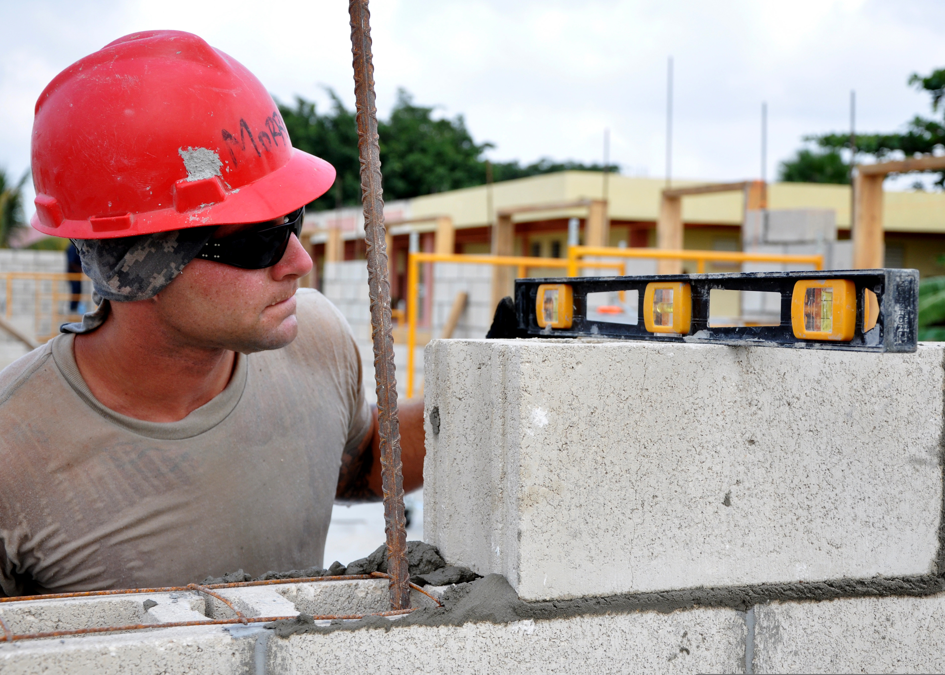 U.S. Air Force Staff Sgt. Matthew Morrison levels a concrete block at the construction site of the Louisiana Government Primary School in Belize on April 30, 2013. Civil engineers from both the U.S. and Belize are building various structures at schools throughout Belize as part of exercise New Horizons. The construction will provide valuable training for U.S. and Belizean service members and will support further education for the children of Belize. Morrison is attached to the 823rd Red Horse Squadron.